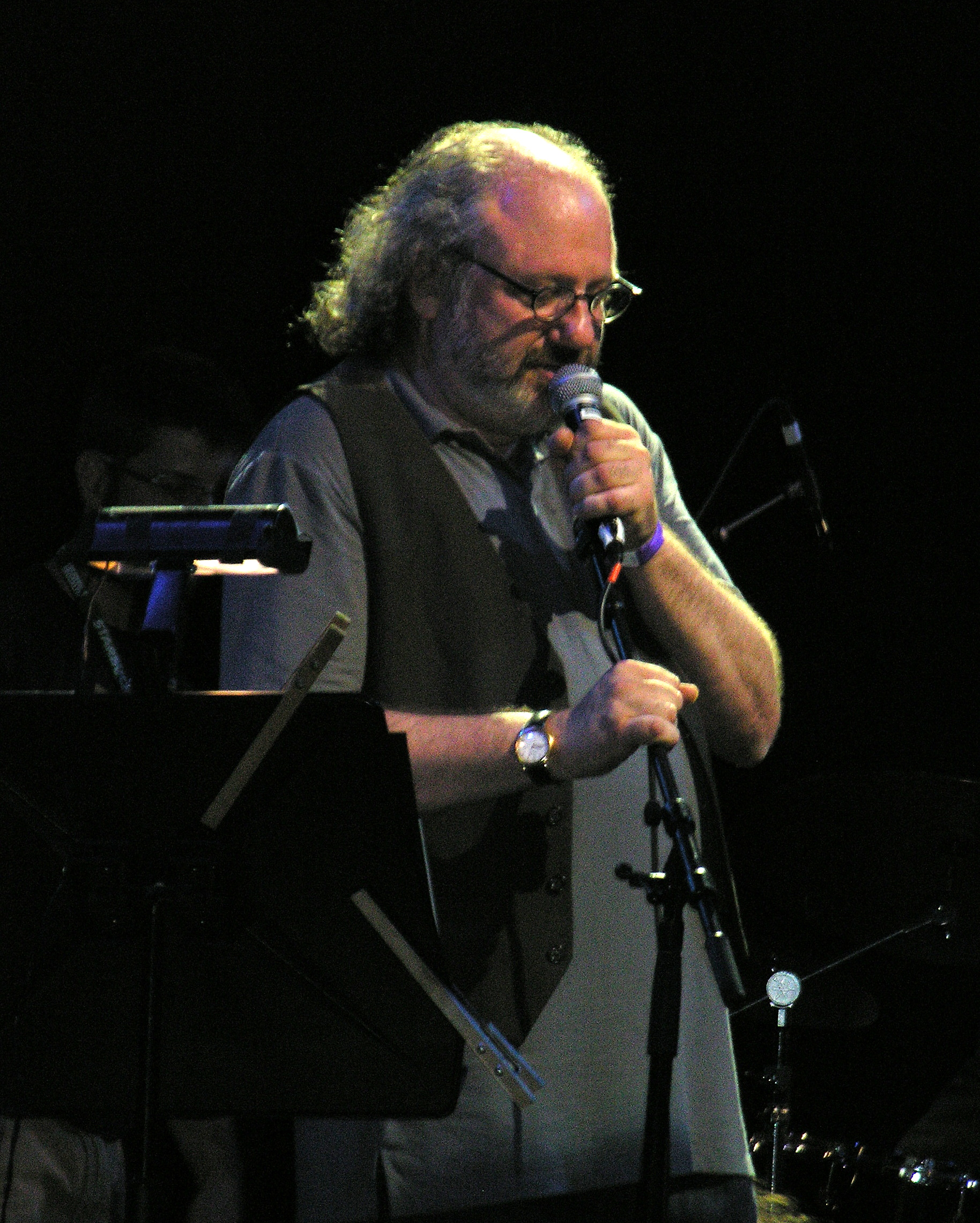 For more information about this photo, go to Blather From Brooklyn .